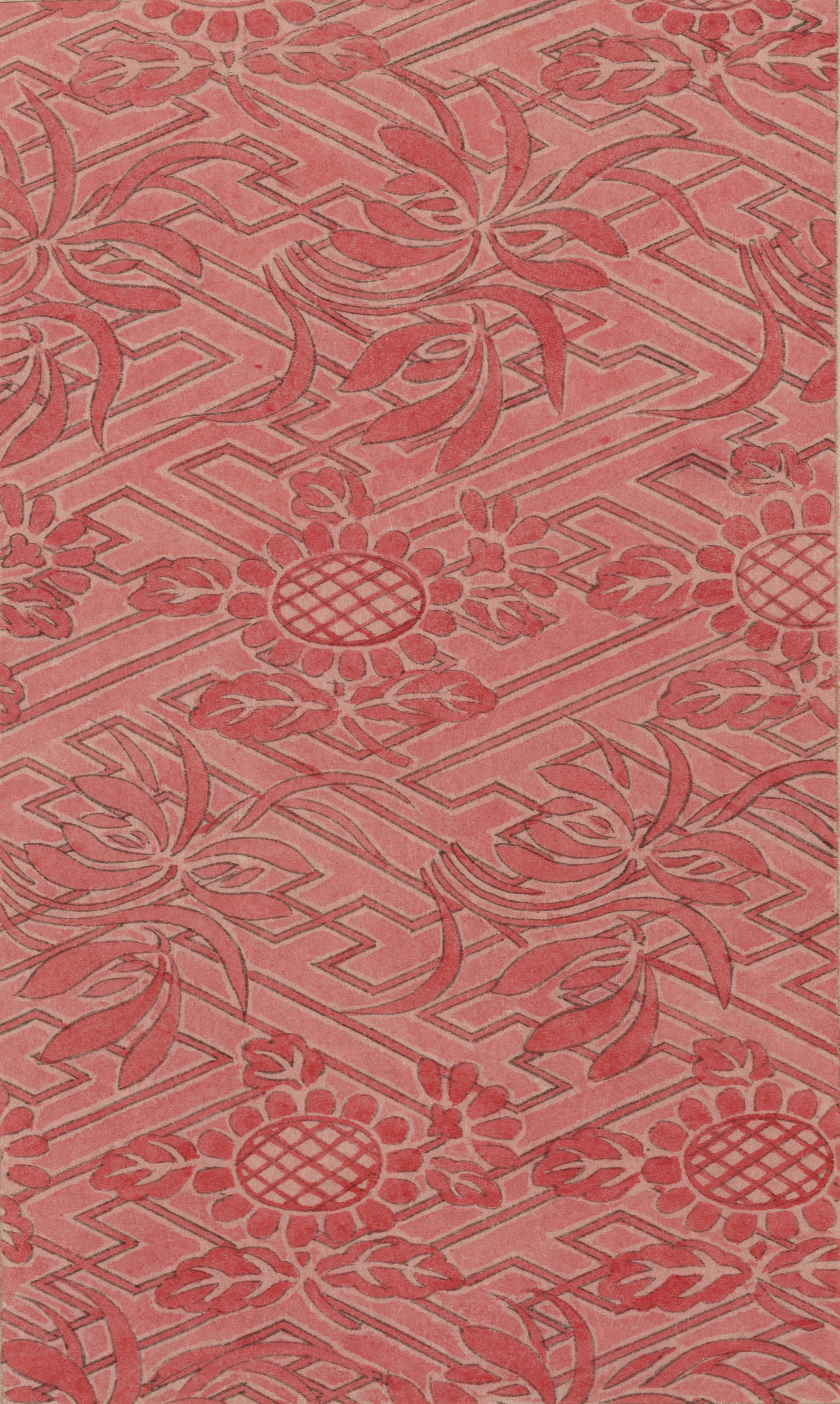 Woodblock print illustrating Rinzu fabric with stylized floral designs for kimonos